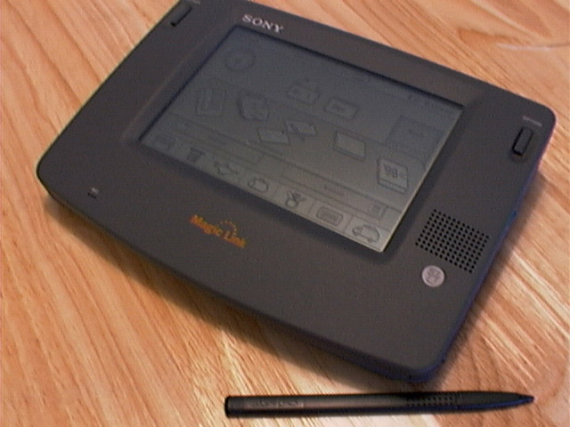 This PDA uses General Magic's "Magic Cap" user object-oriented operating system.